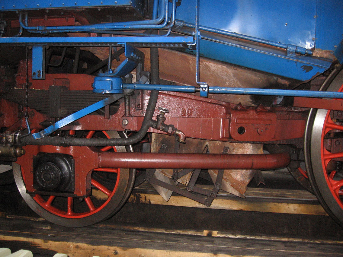 Bissel bogie and ash box on the ČD (Czech railways) 498.022